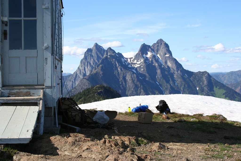 The view of Hozomeen Mountain from Desolation Peak, where writer Jack Kerouac once worked.